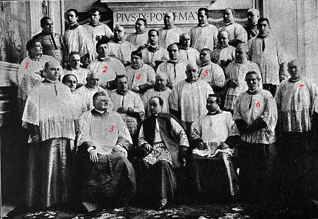 The official posed photograph of the Sistine Chapel Choir on March 4th 1898, when the choir celebrated the 20th anniversary of the coronation of pope Leo XIII. There are the castrato singers: 1 Giovanni Cesari. 2 Domenico Salvatori. 3 Domenico Mustafà. 4 Alessandro Moreschi. 5 Vincenzo Sebastianelli. 6 Gustavo Pesci. 7 Giuseppe Ritarossi.